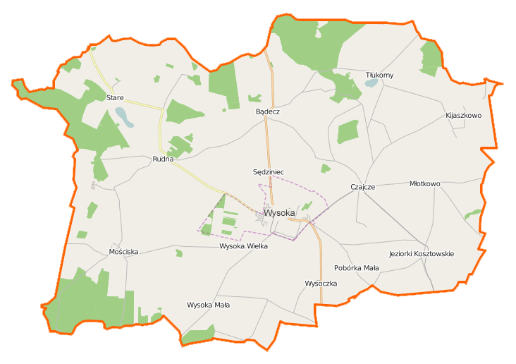 Map of Gmina Wysoka, Poland This map of Wysoka (gmina) was created from OpenStreetMap project data, collected by the community. This map may be incomplete, and may contain errors. Don't rely solely on it for navigation. Border coordinates53.244716.9430←↕→17.194253.1383